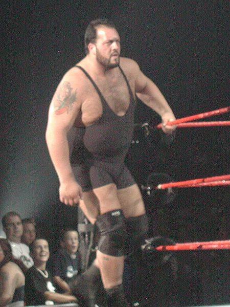 Paul Wight at a WWE Raw live event. Allstate Arena, Rosemont, Illinois, September 1en:2002. Taken by me.